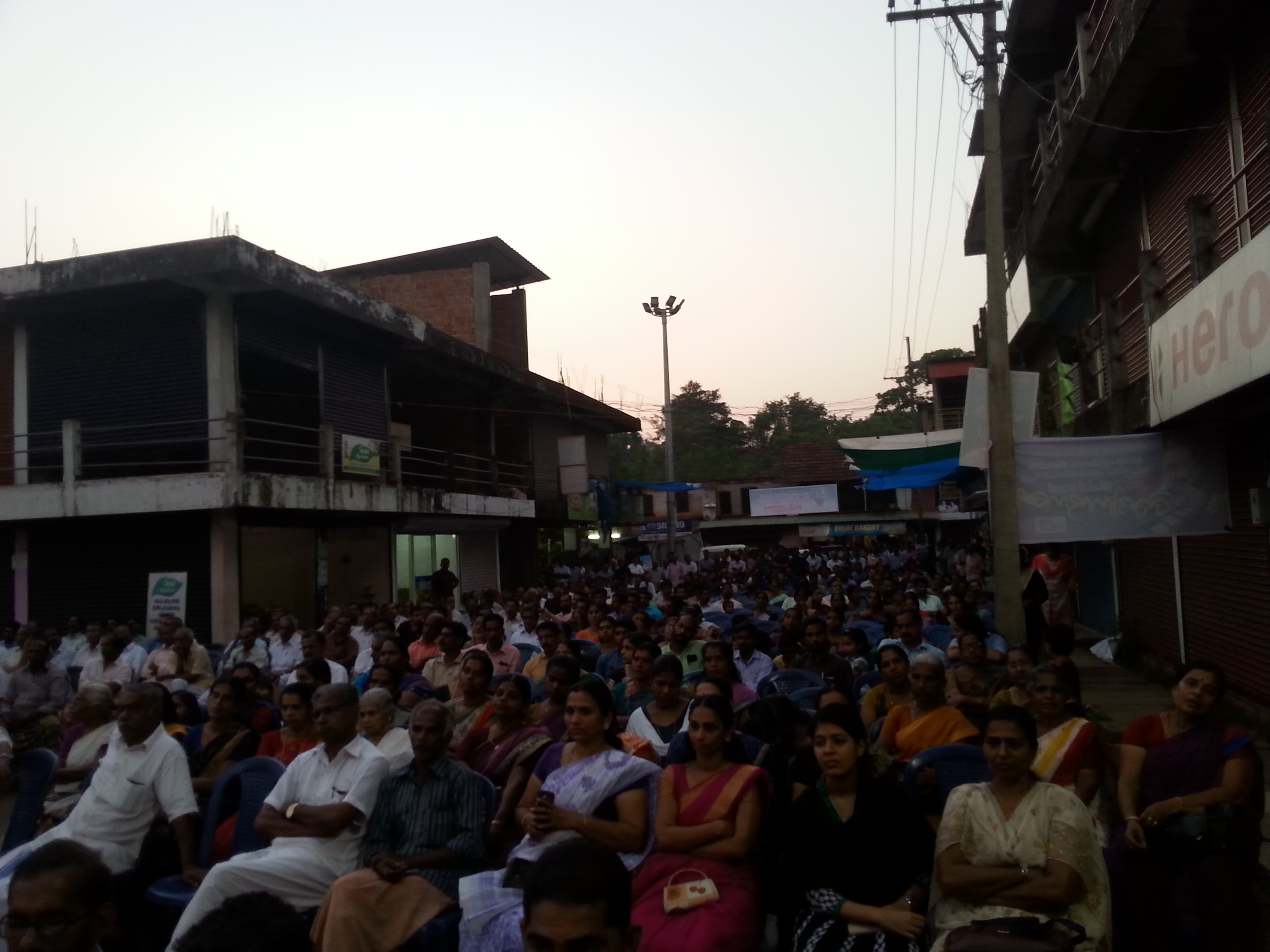 kesari nayanar award,face mathmanglam